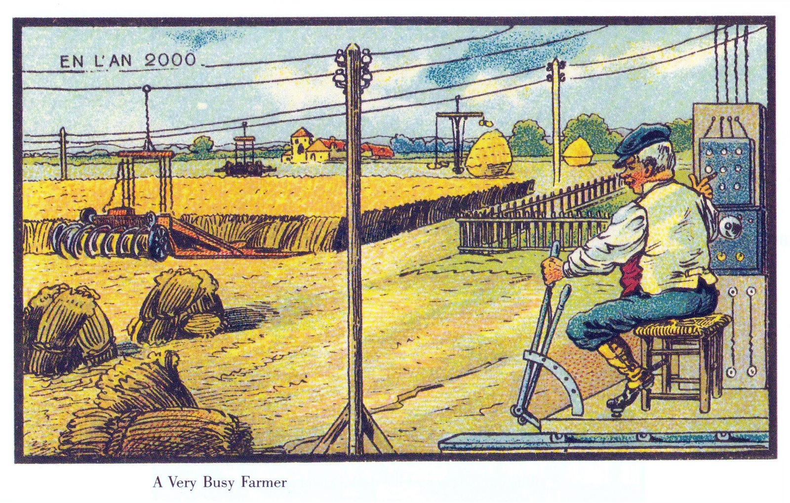 France in 2000 year (XXI century). Very busy farmer. France, paper card by Jean-Marc Côté.